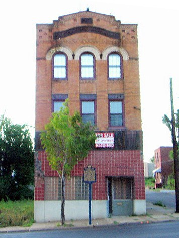 The second Crawford Grill location. Crawford Grill.